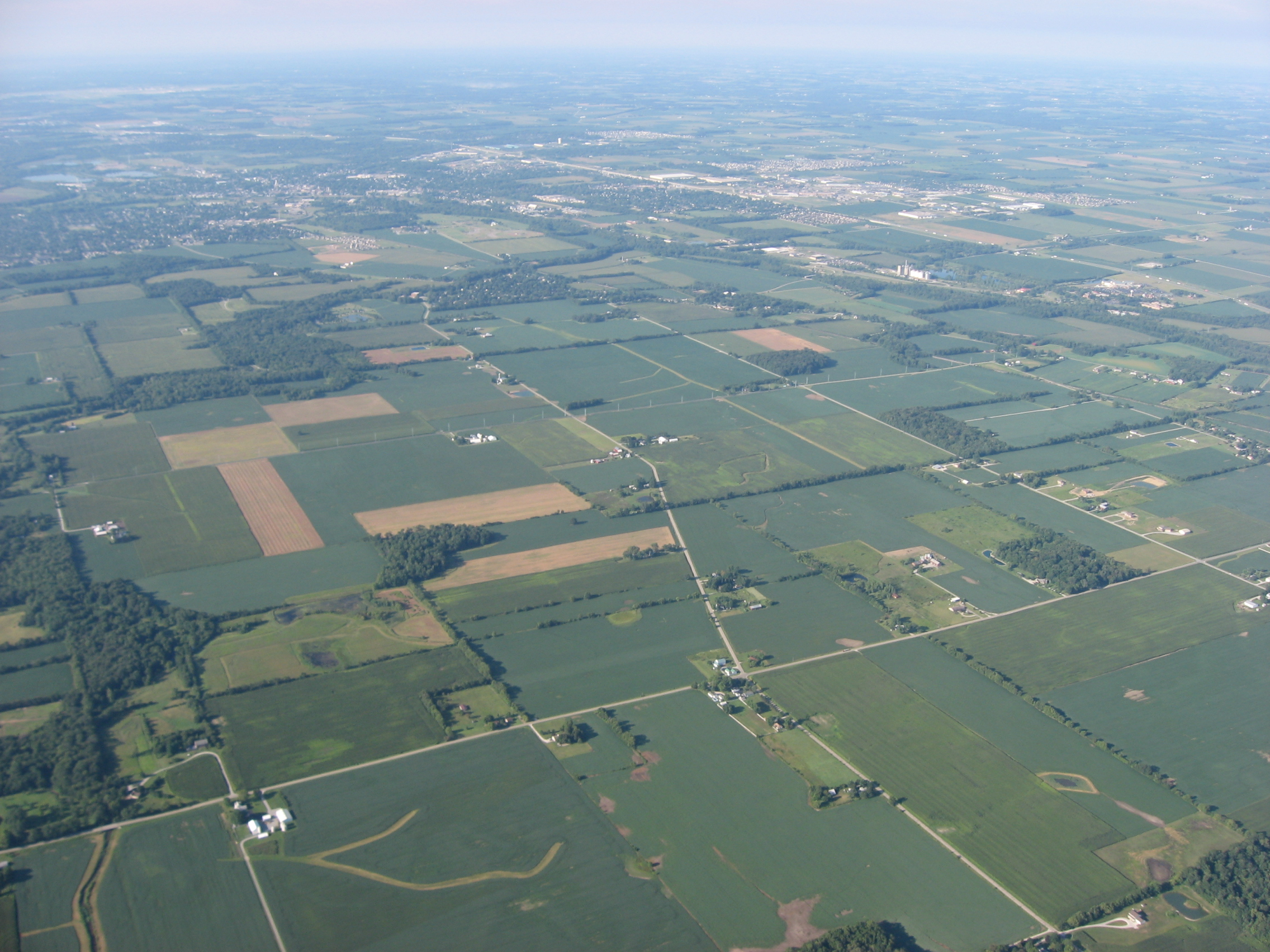 Aerial view of northern Staunton Township, Miami County, Ohio, United States. Picture taken from a Diamond Eclipse light airplane at an altitude of 4,550 feet MSL and a bearing of approximately 213º.